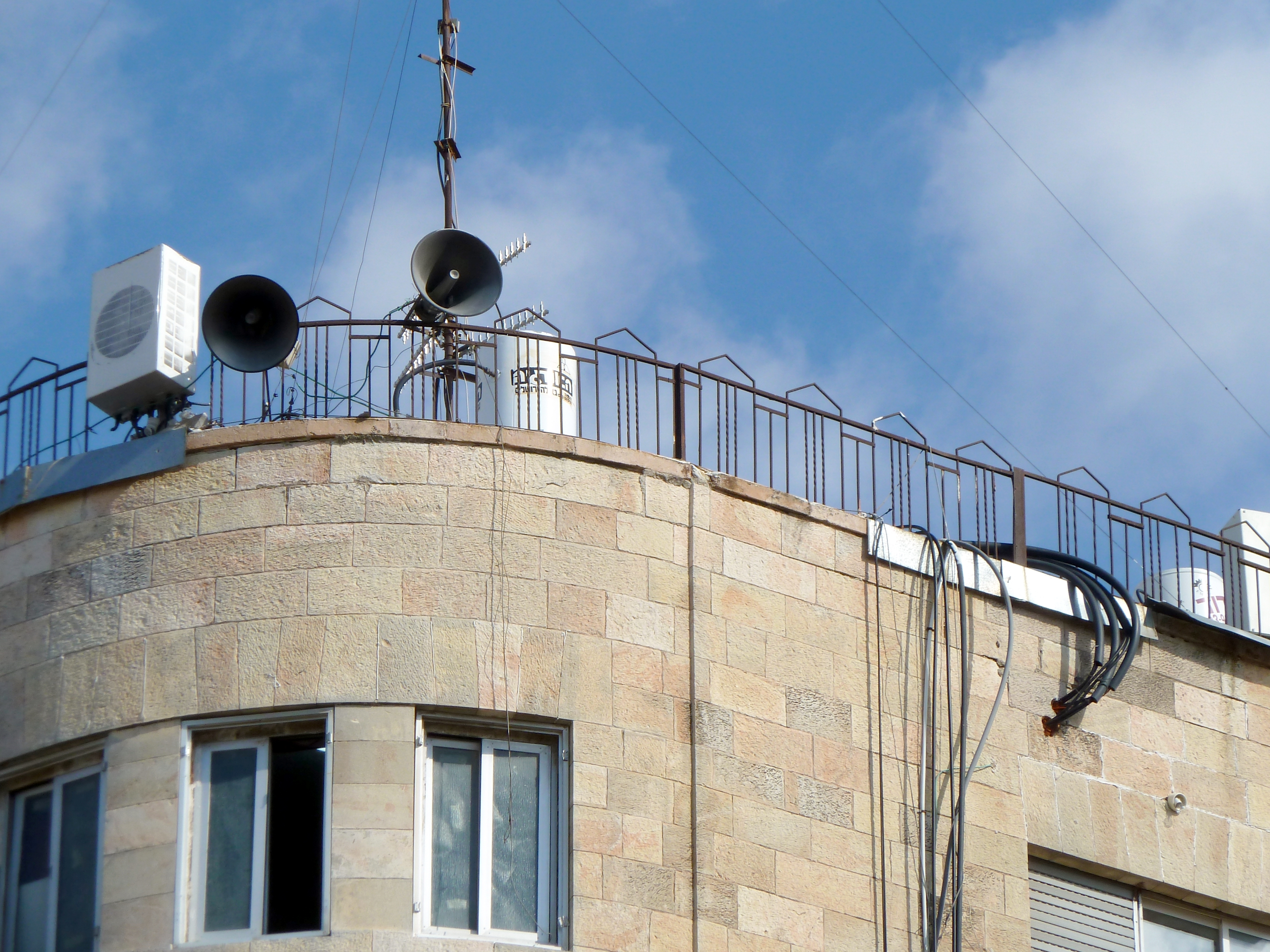 Jerusalem Mea Shearim Kikar HaShabbat Greentec building roof